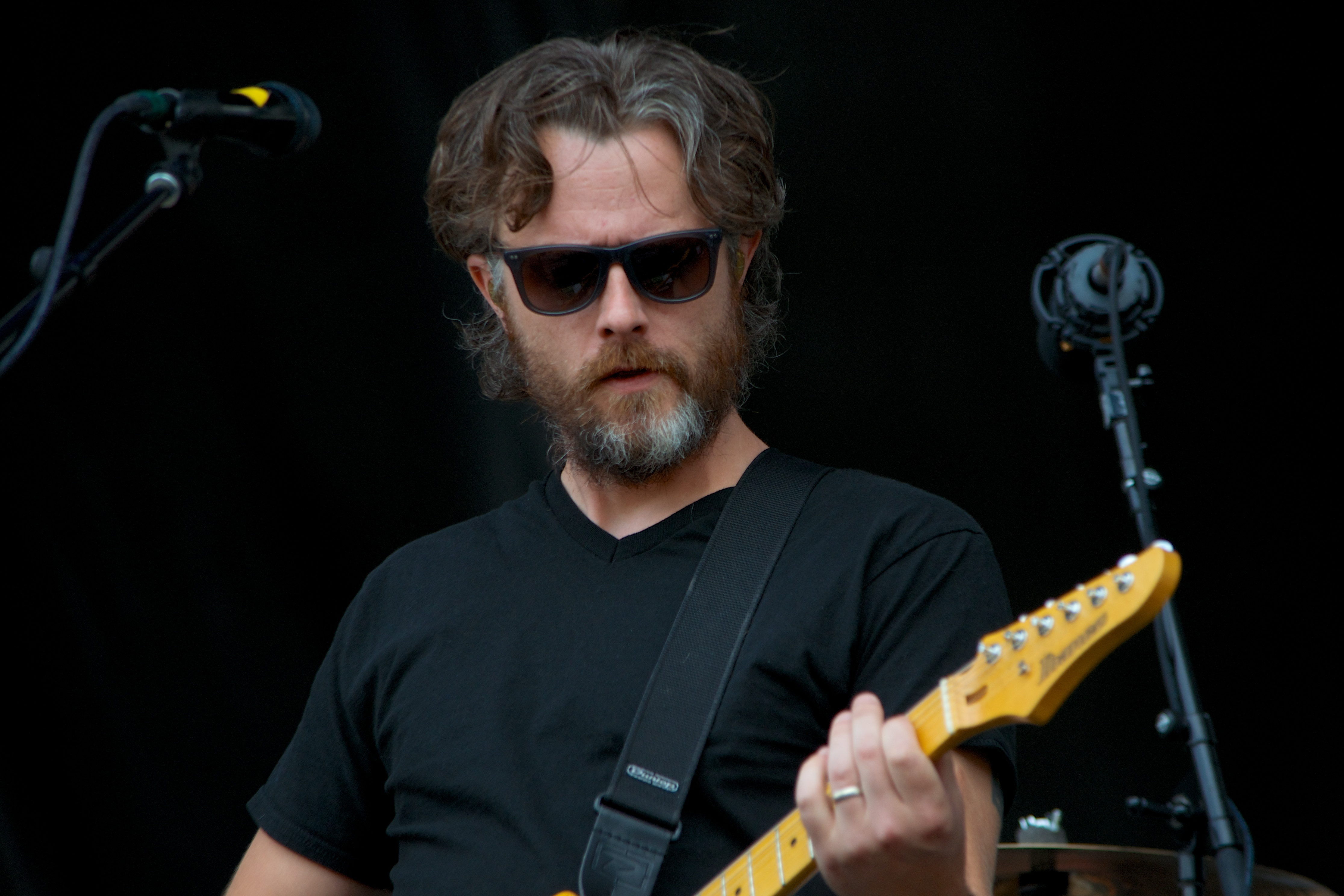 Jake Snider performing with Minus The Bear at Pemberton Music Festival in 2014